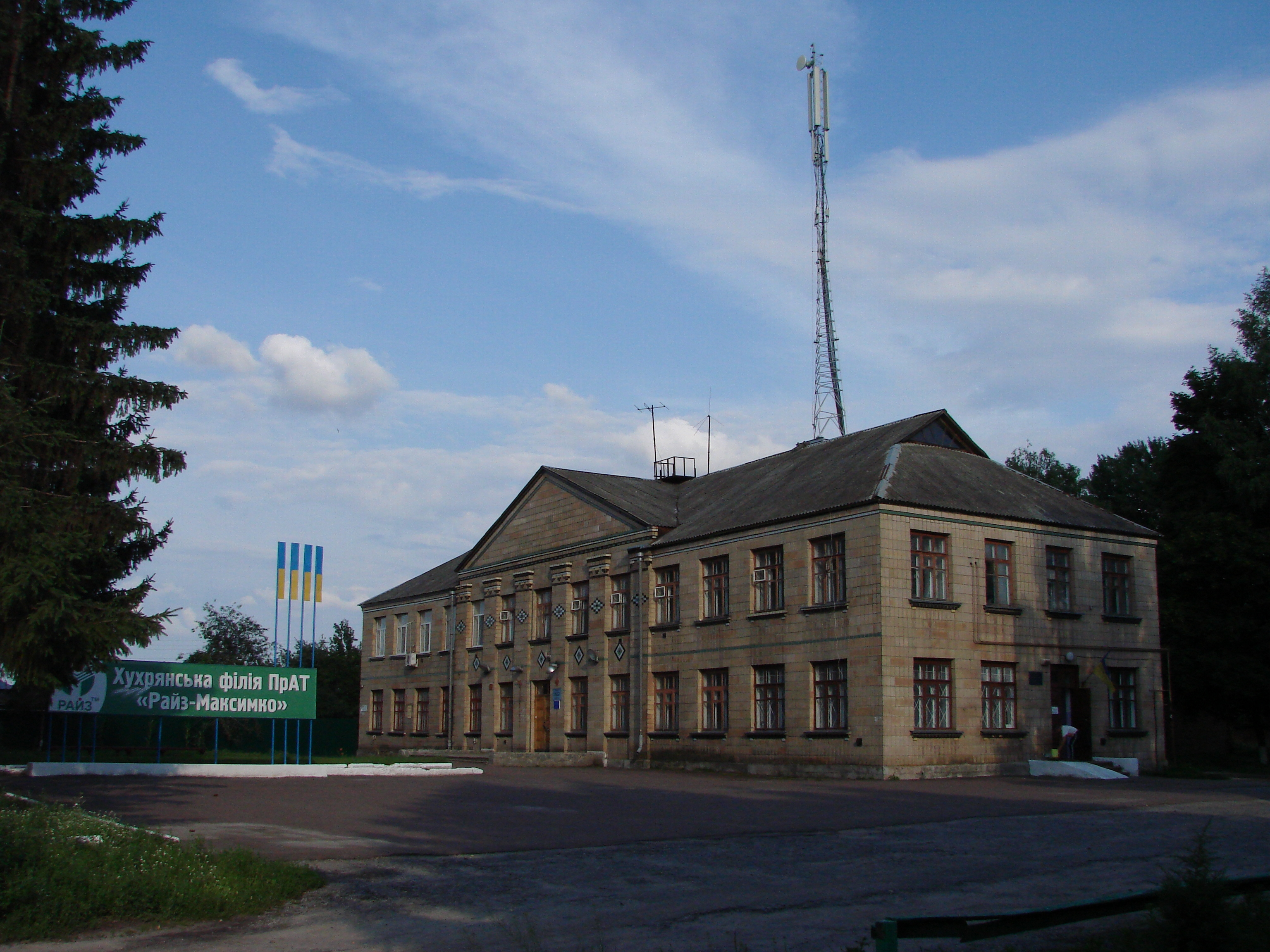 Ukraine. Sumy region. Khukhra village. Board of agro-firms.